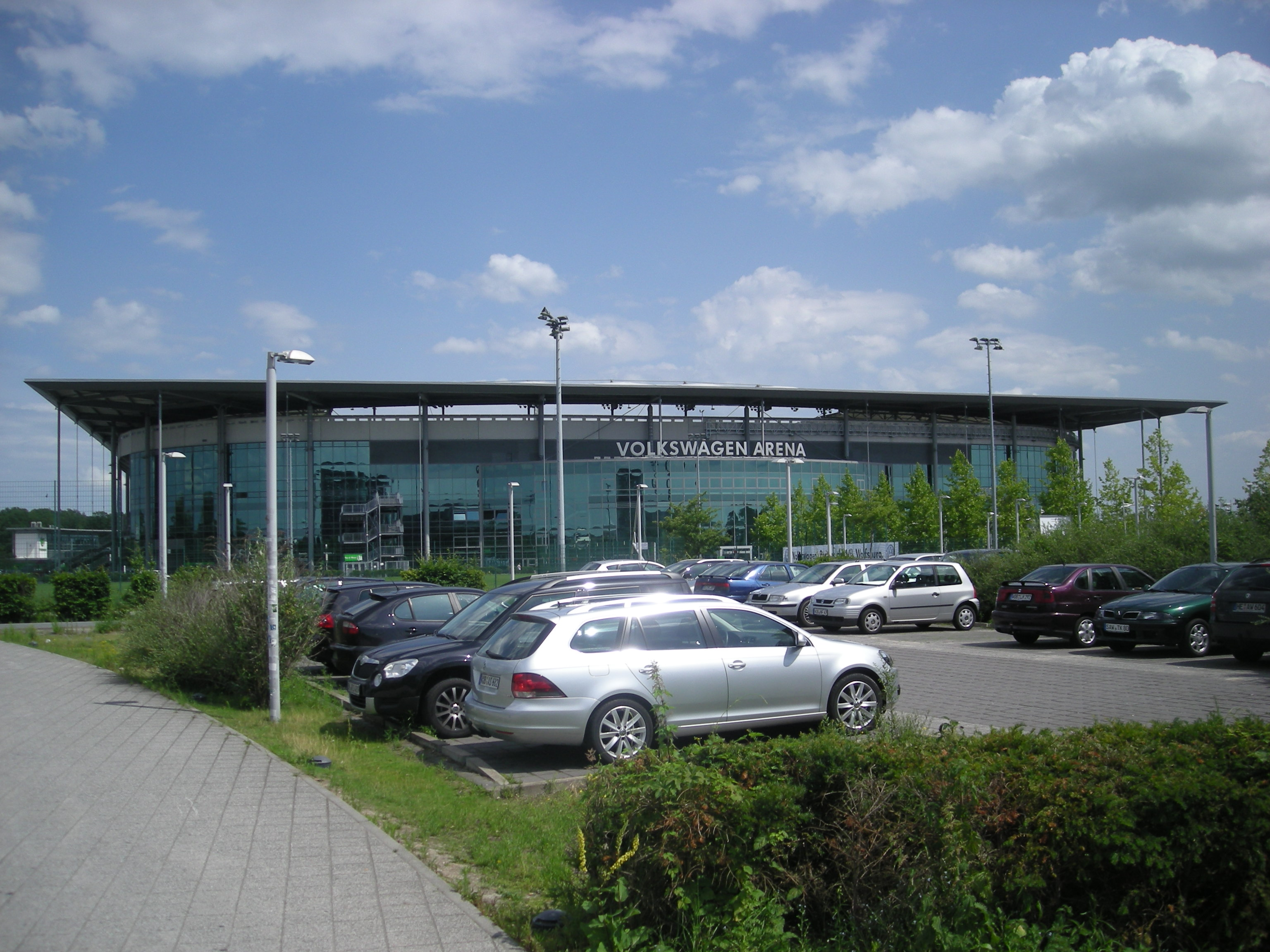 The exterior of Volkswagen Arena in Wolfsburg, Niedersachsen (Germany).